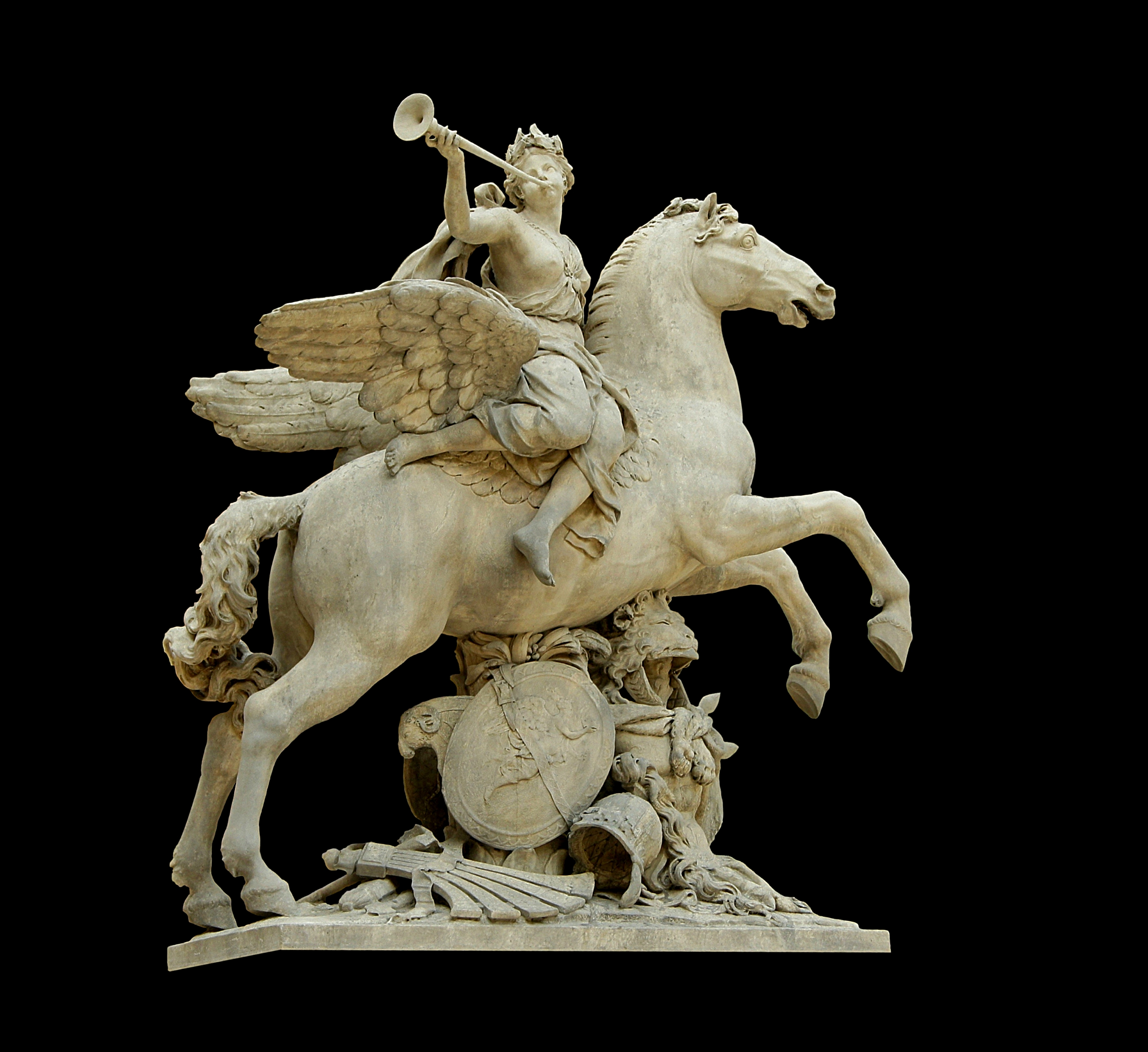 The (King's) fame riding Pegasus.